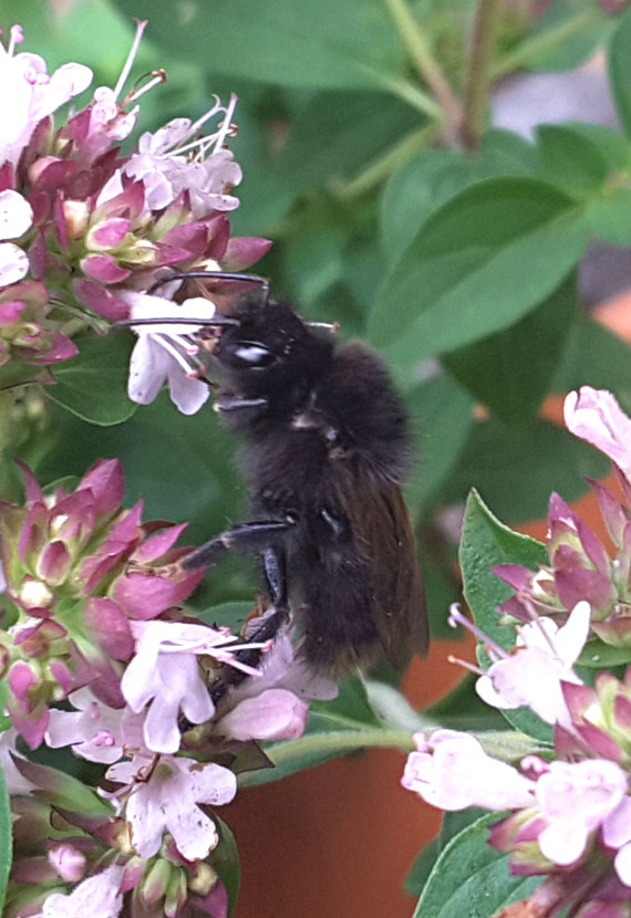 Melantistic garden bumblebee (Bombus hortorum) on oregano (Origanum vulgare).